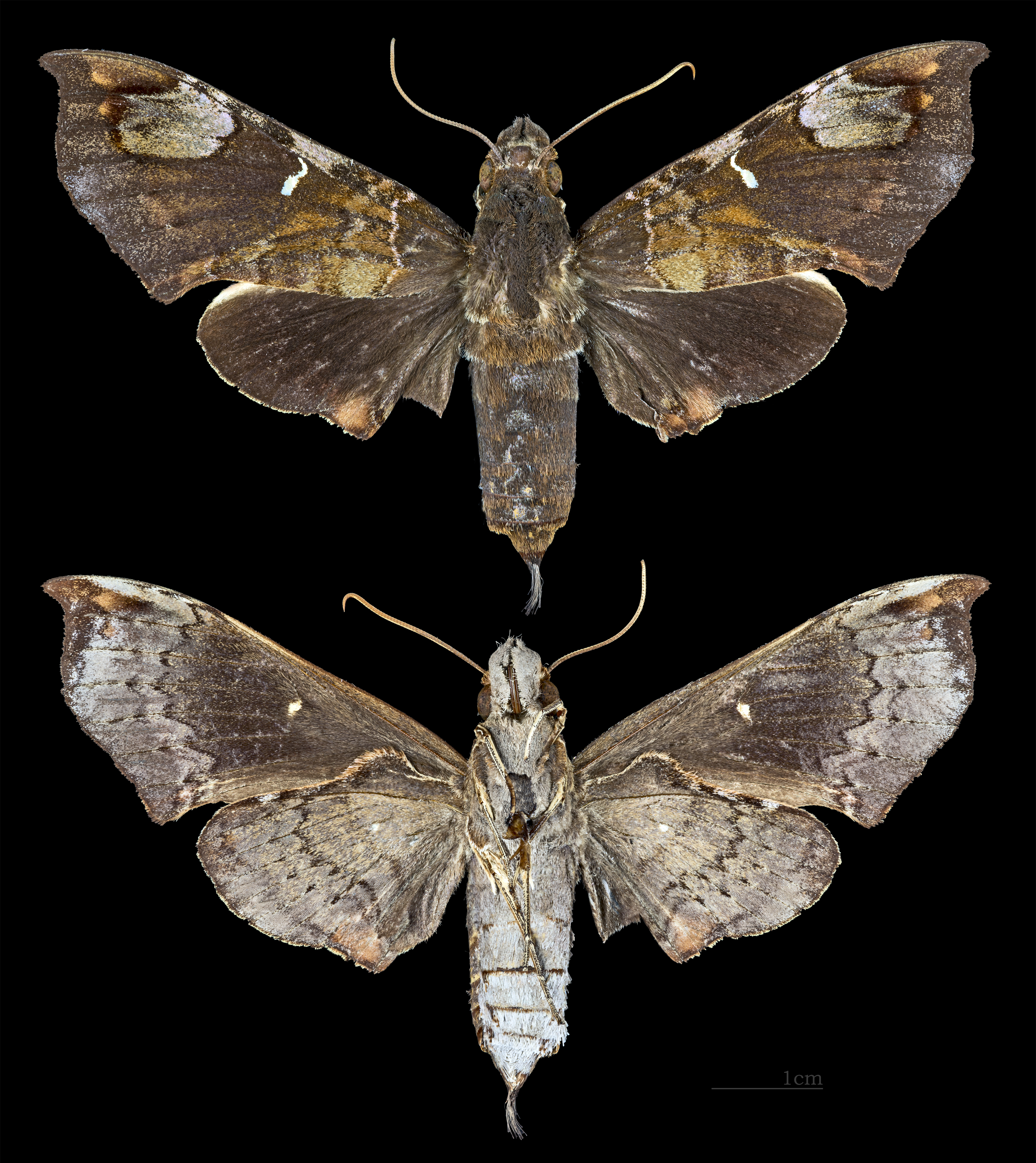 Giganteopalpus mirabilis - Two views of same specimen Collection of the Mathematician Laurent Schwartz